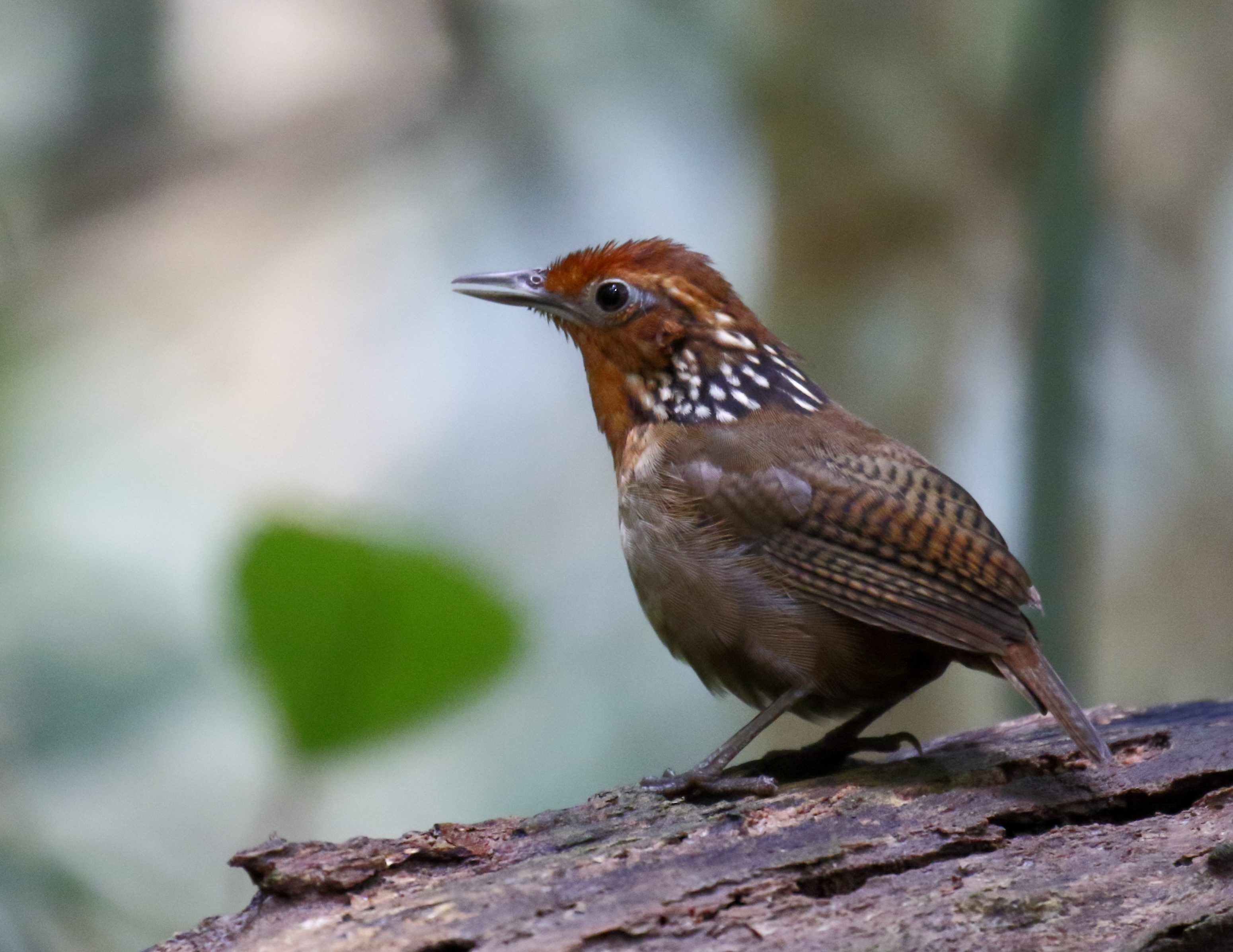 Musician wren at Pte. Figueiredo, Amazonas, Brazil